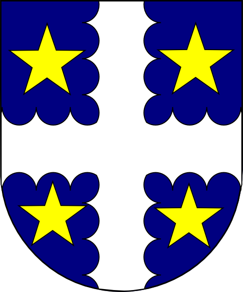 Coat of arms (shield only) of François cardinal Morlot, bishop of Orléans (1839 - 1842), archbishop of Tours (1842 - 1857), archbishop of Paris (1857 - 1862).